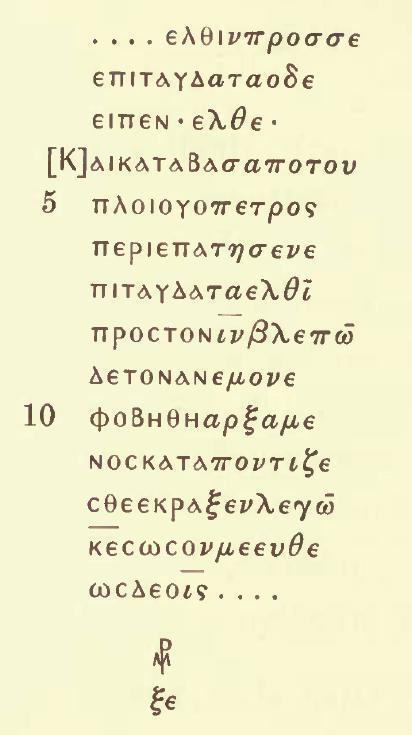 Matthew 14:28-31 from edition of Rendel Harris (Biblical fragments from Mount Sinai (London, 1890), p. 16)